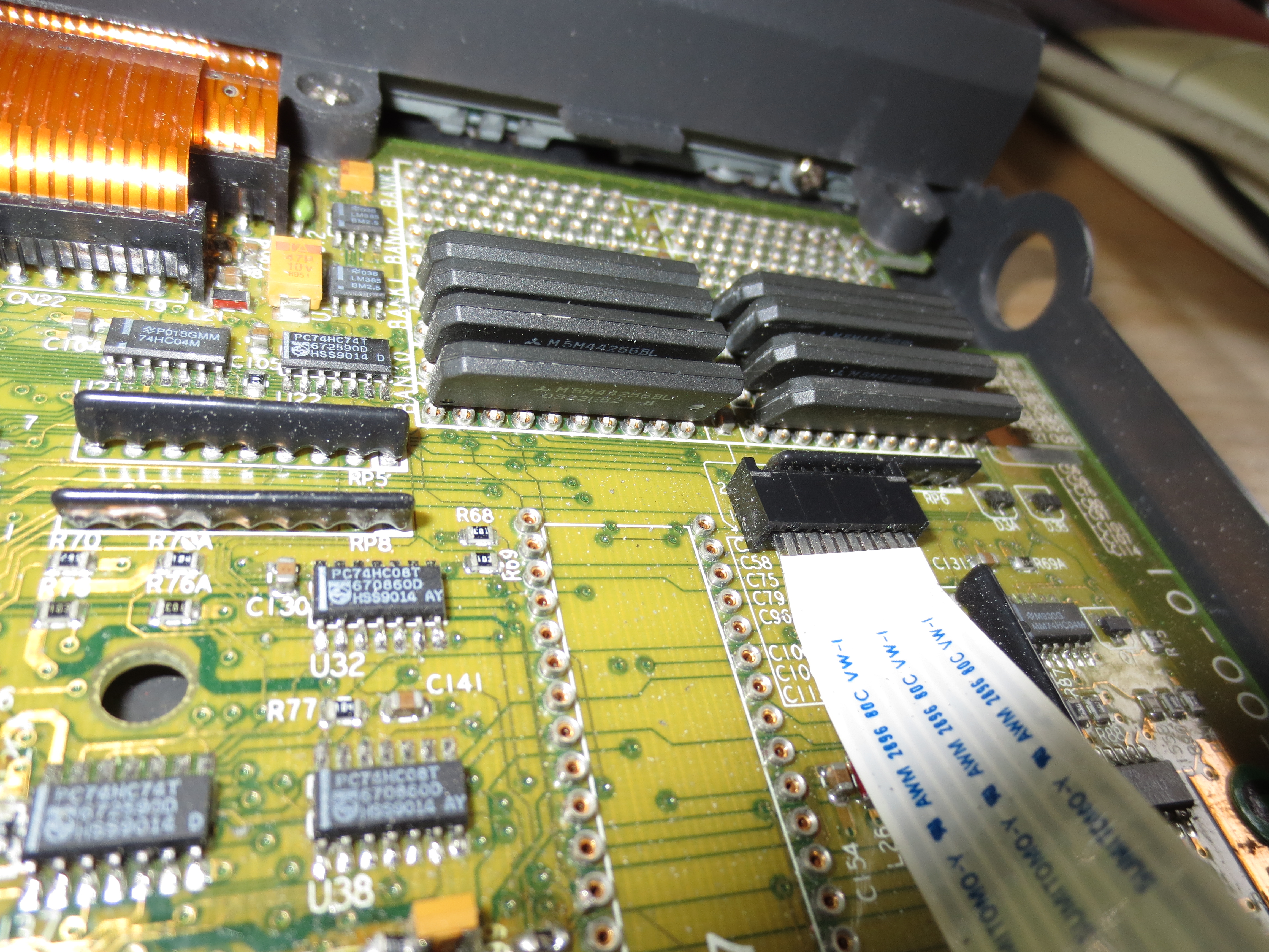 Motherboard of the Walkom/NoteStar NP-902 286-12MHz Laptop showing the ZIP-RAM-Modules